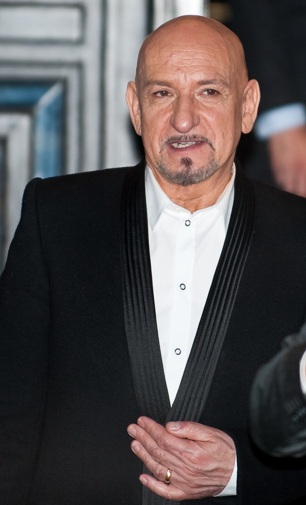 British actor Sir Ben Kingsley leaving the Hotel de Rome at the 60th Berlin International Film Festival